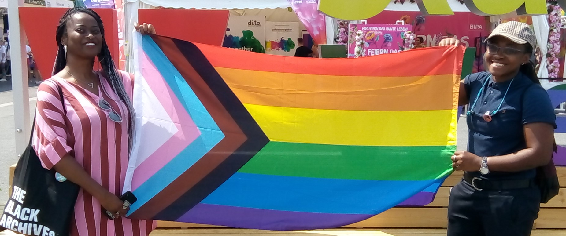 Two people at EuroPride 2019 (Vienna) holding an LGBTQ+ pride rainbow flag featuring a design by Daniel Quasar; this variation of the rainbow flag was initially promoted as "Progress" a PRIDE Flag Reboot.